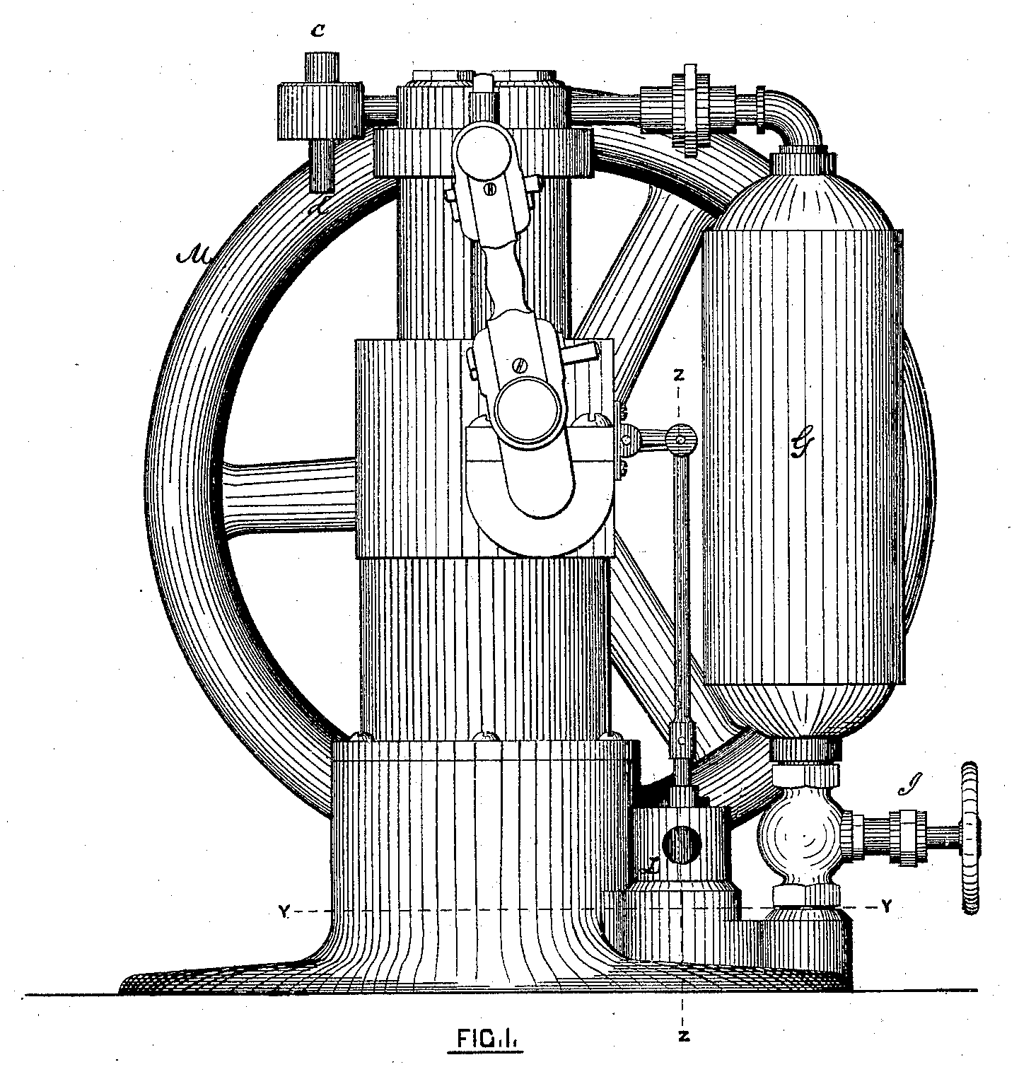 Brayton's Ready Motor Figure 1 is a side elevation Figure 2 is a vertical section on the line x of Figure 3 Figure 3 is a horizontal section on the line y of figure 2 and 4 Figure 4 ist a vertical section on the line z of figure 2 and 3 A is the cylinder B piston C barrel of the air pump D piston E rod (common to piston B and D) F a chamber/resevoirwith two inlets (c and d) H recess or chamber (formed by the bottom of cylinder B) J revolving-cam K lever M balance-wheel M (Fig. 3) exhaust-valve a induction valve b eduction-valve c inlet to chamber F d inlet to chamber F e wire-gauze diaphragms (called "interceptors") f conducting-passage h valve k valve-rod j spring m V-shaped channel